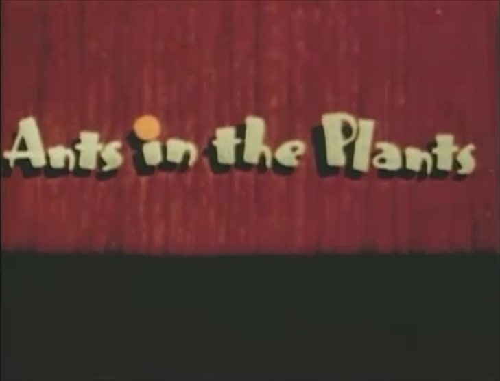 Title card of Ants in the Plants